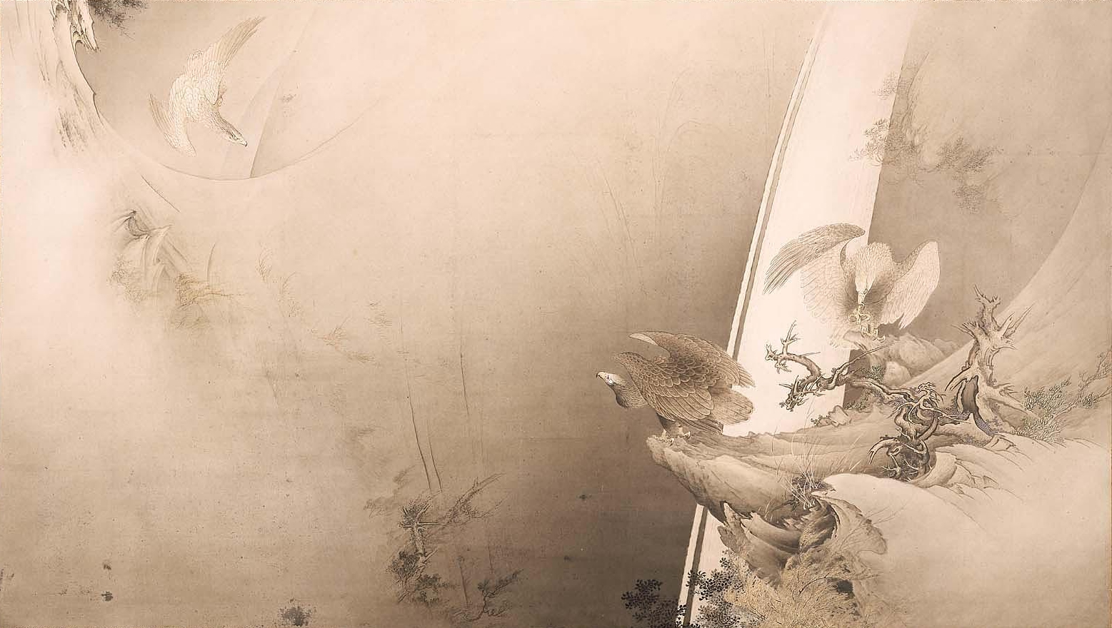 Kano Hogai: Hawks in a Ravine, 1885. Ink on paper, 93.2 × 165.7 cm. Boston Fine Arts Museum